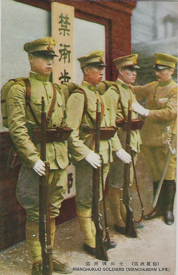 Postcard of Manchukuo Imperial Army troops